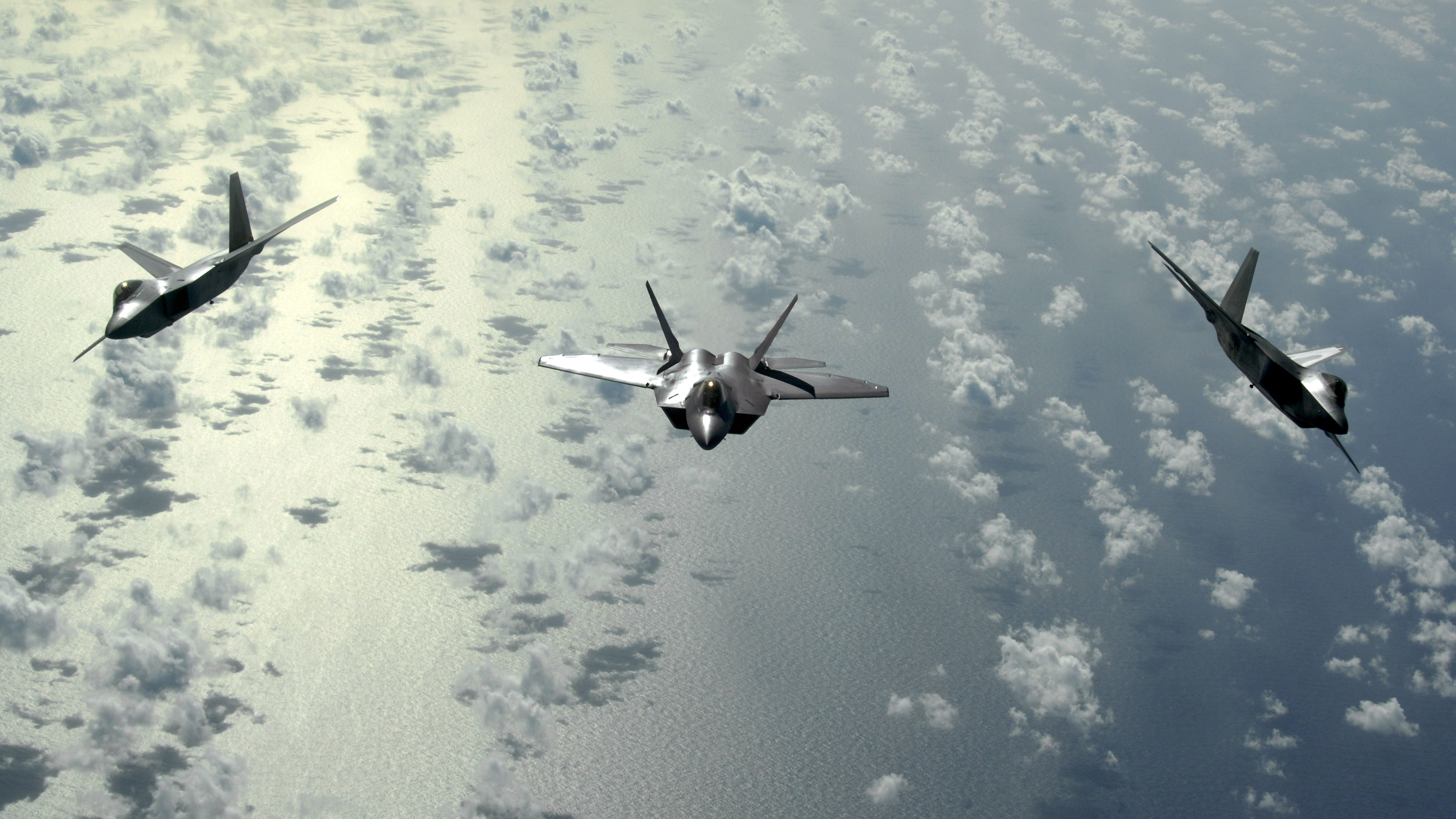 A three-ship formation of F-22 Raptors flies over the Pacific Ocean Jan. 28 as part of a deployment to Andersen Air Force Base, Guam. The Raptors are deployed from Elmendorf AFB, Alaska.